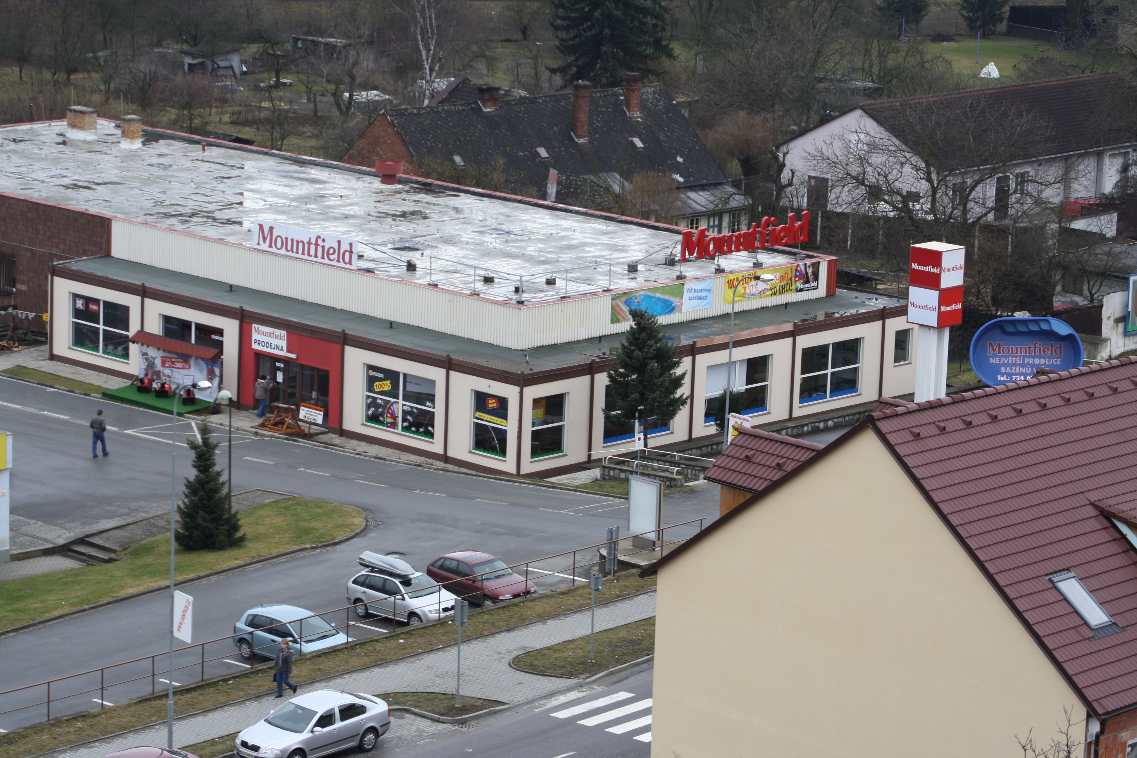 Exterior of Mountfield shop in Třebíč, Czech Republic.